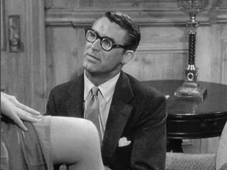 Cropped screenshot of Cary Grant from the trailer for the film Monkey Business